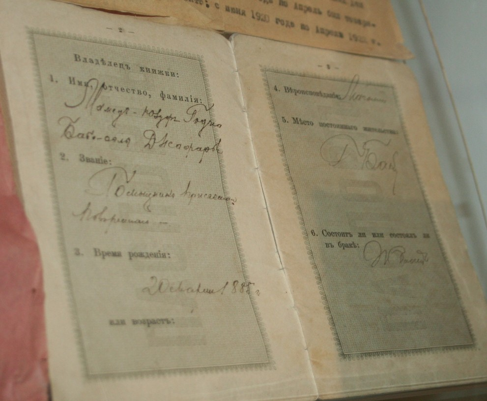 Passport of Mammad Yusif Jafarov